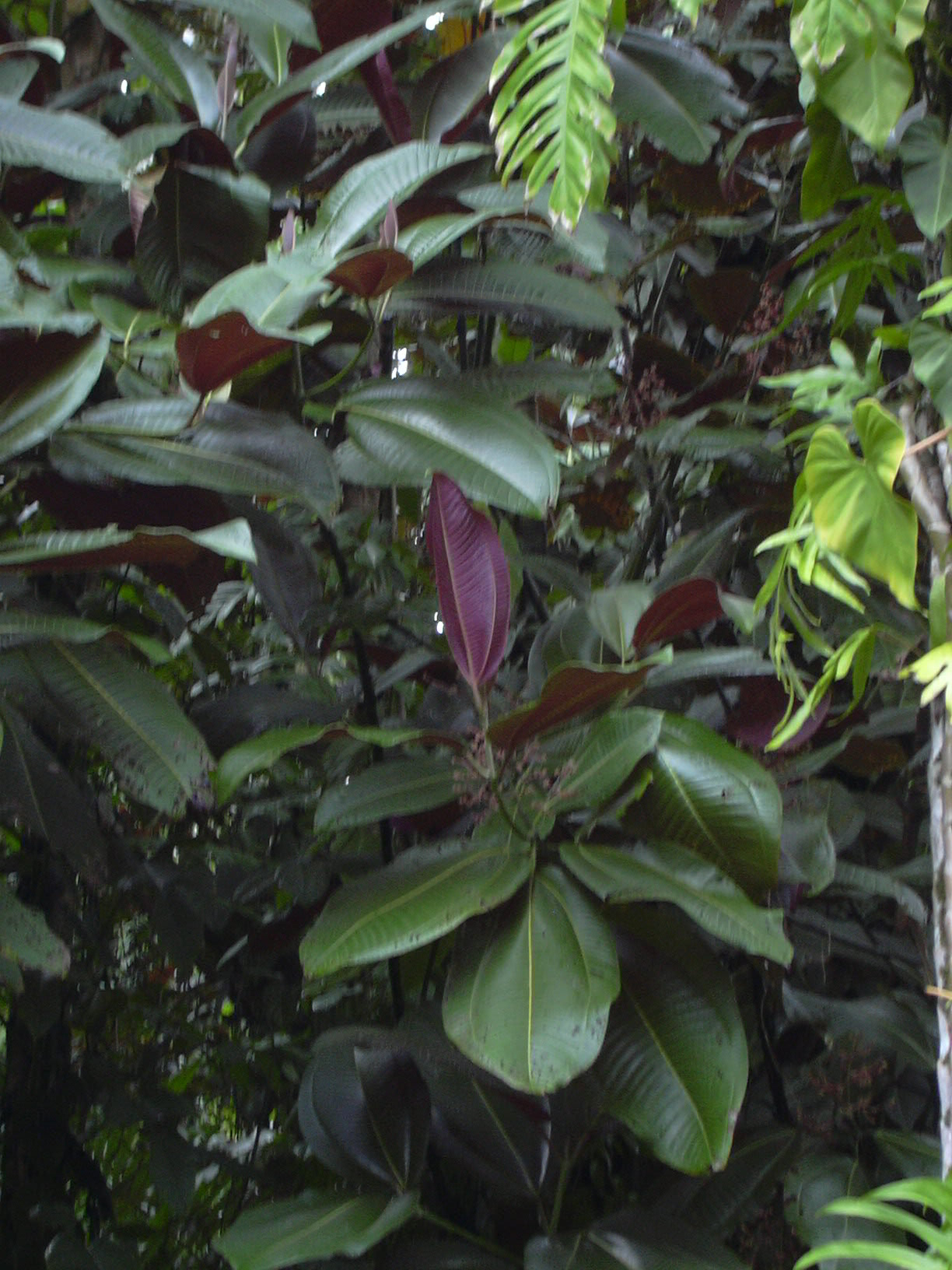 Miconia calvescens (habit). Location: Hawaii, Hilo